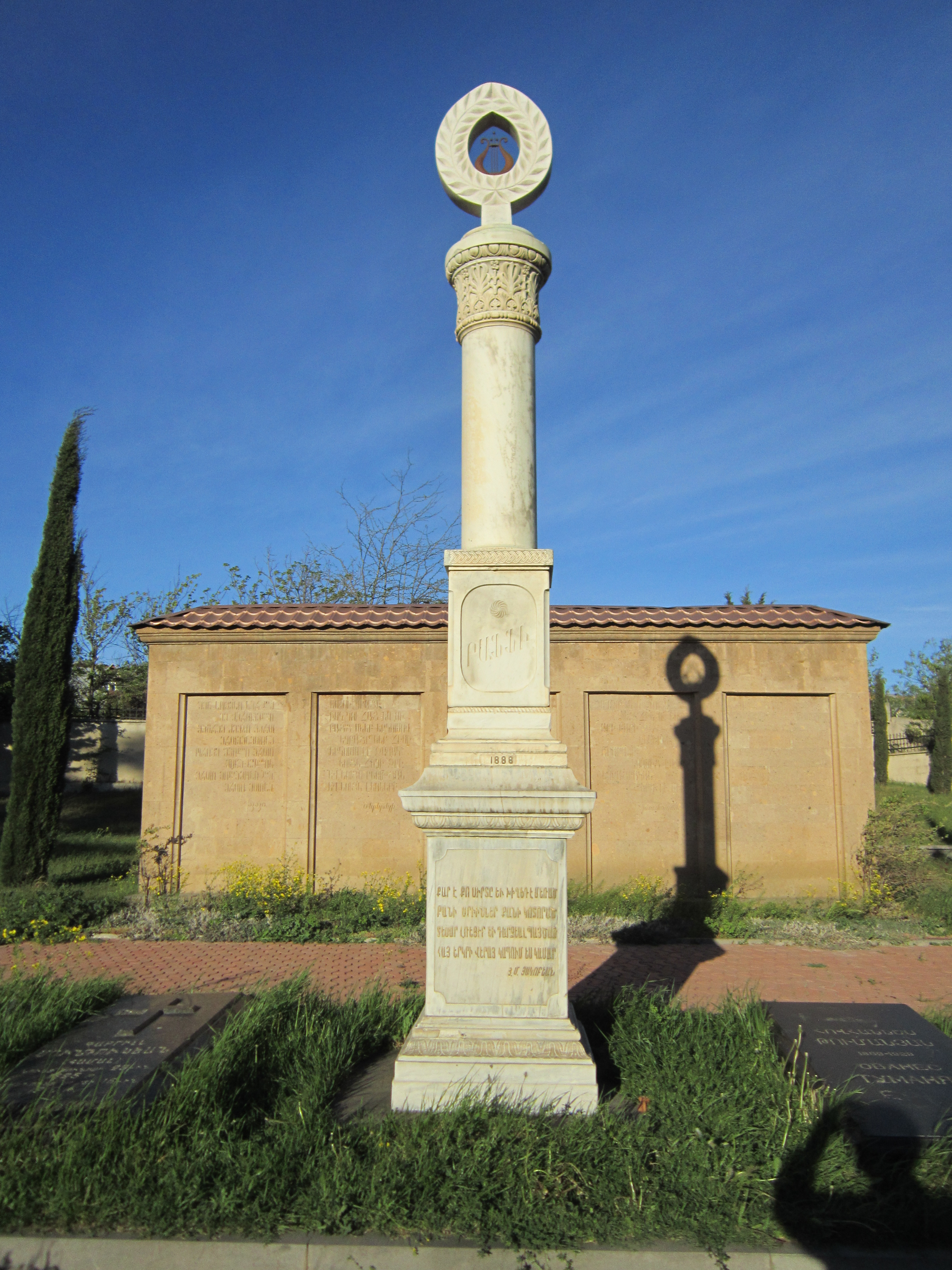 The tombstone of Raffi in Khojivank